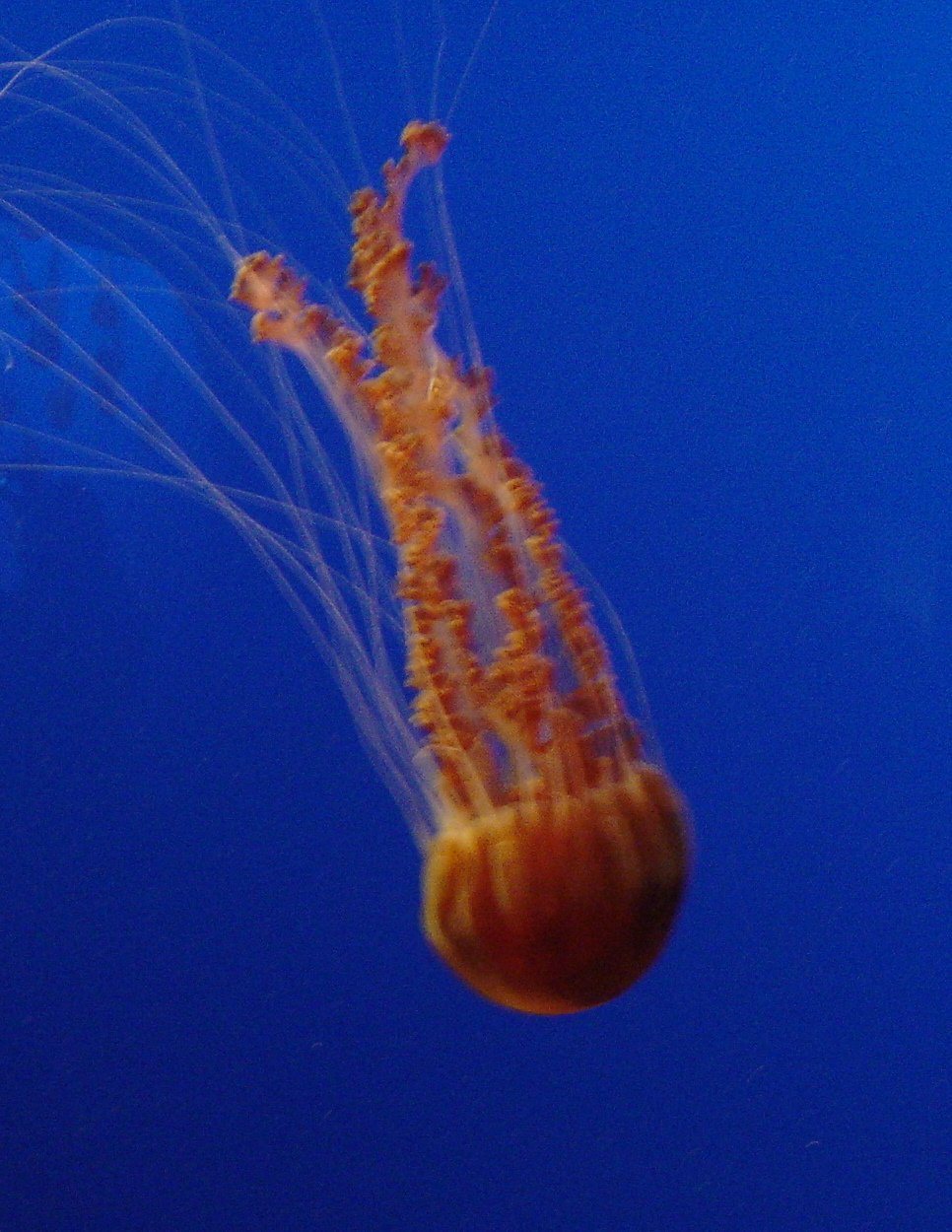 A Black Sea Nettle Jellyfish.